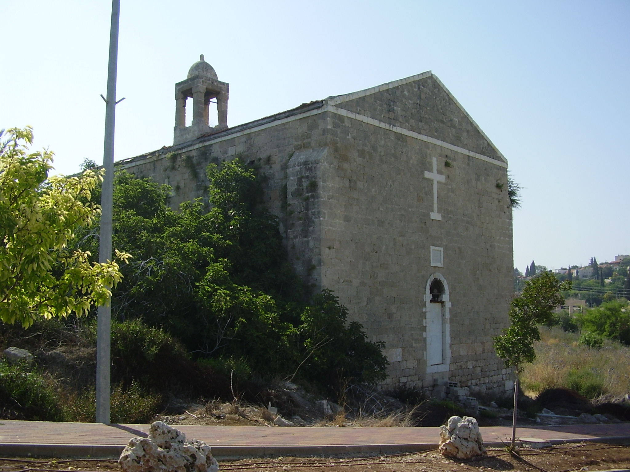 Roman Catholic Church in Bassa